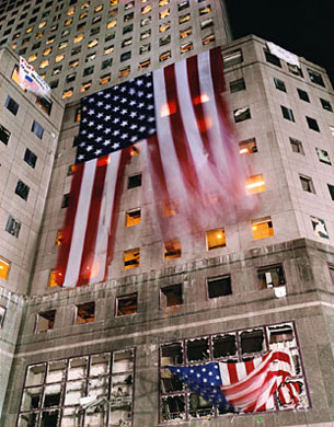 Image from The Bureau of Educational and Cultural Affairs (ECA) of the U.S. State Department and the Museum of the City of New York of the World Trade Center attacks. Photographer: Joel Meyerowitz.